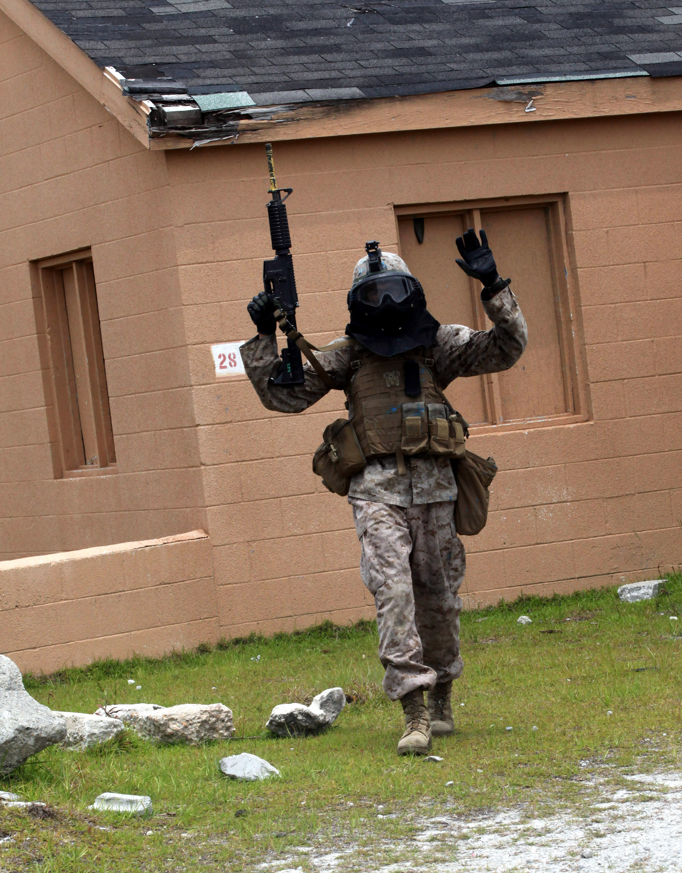 A Marine from Scout and TOW platoon with 2nd Tanks Battalion, 2nd Marine Division, walks to a safe zone with his arms raised showing he is out of the fight during the urban training package aboard the Marine Corps Camp Lejeune, N.C., June 21, 2011. The package covers tactics such as proper room-clearing procedures, maintaining control of a building after clearing it and patrolling techniques in a counterinsurgency environment.